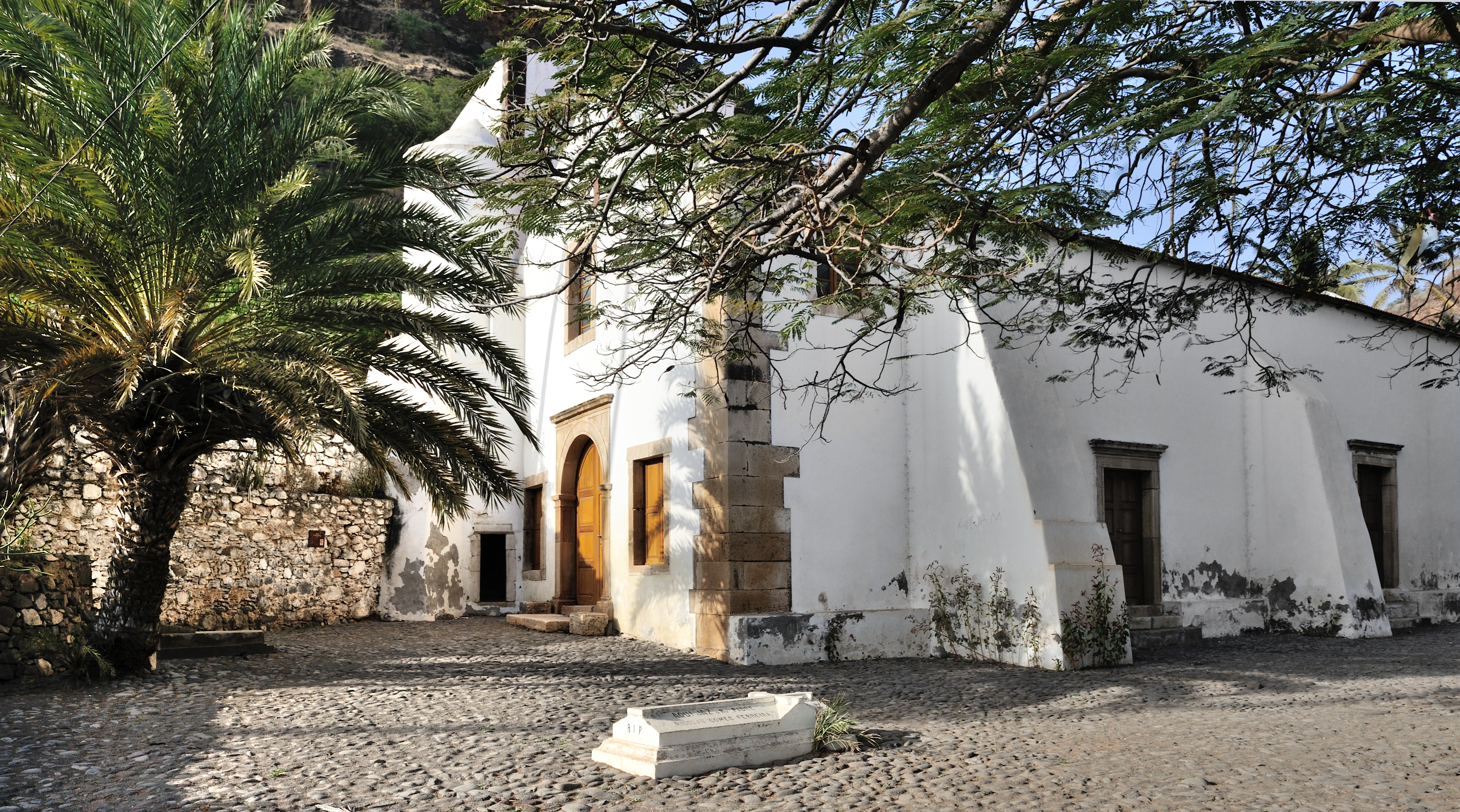 Cape Verde, isle of Santiago, Cidade Velha: Nossa Senhora do Rosário, church exterior. The historic centre of Cidade Velha, this church included, is a UNESCO World Heritage Site.